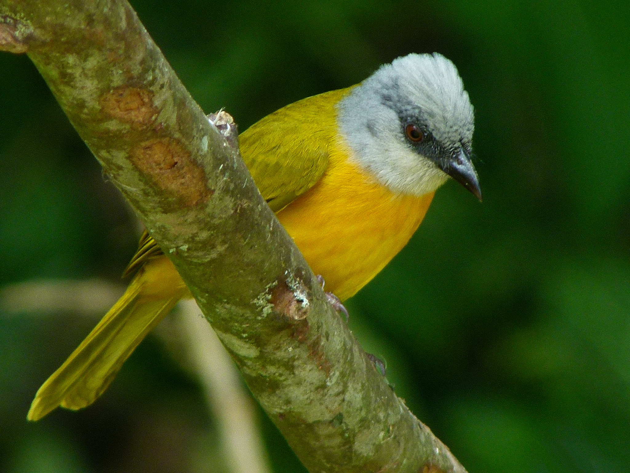 A Grey-headed Tanager in Manizales, Caldas, Colombia.